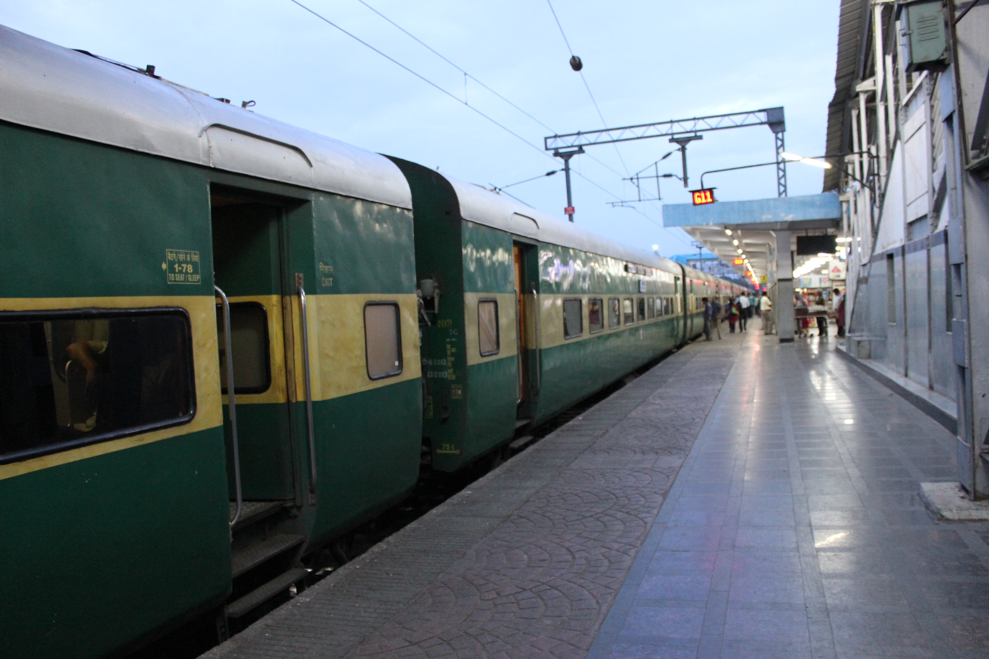 The Secunderabad-Yeshwanthpur Garib Rath Express, an economy air-conditioned train in India